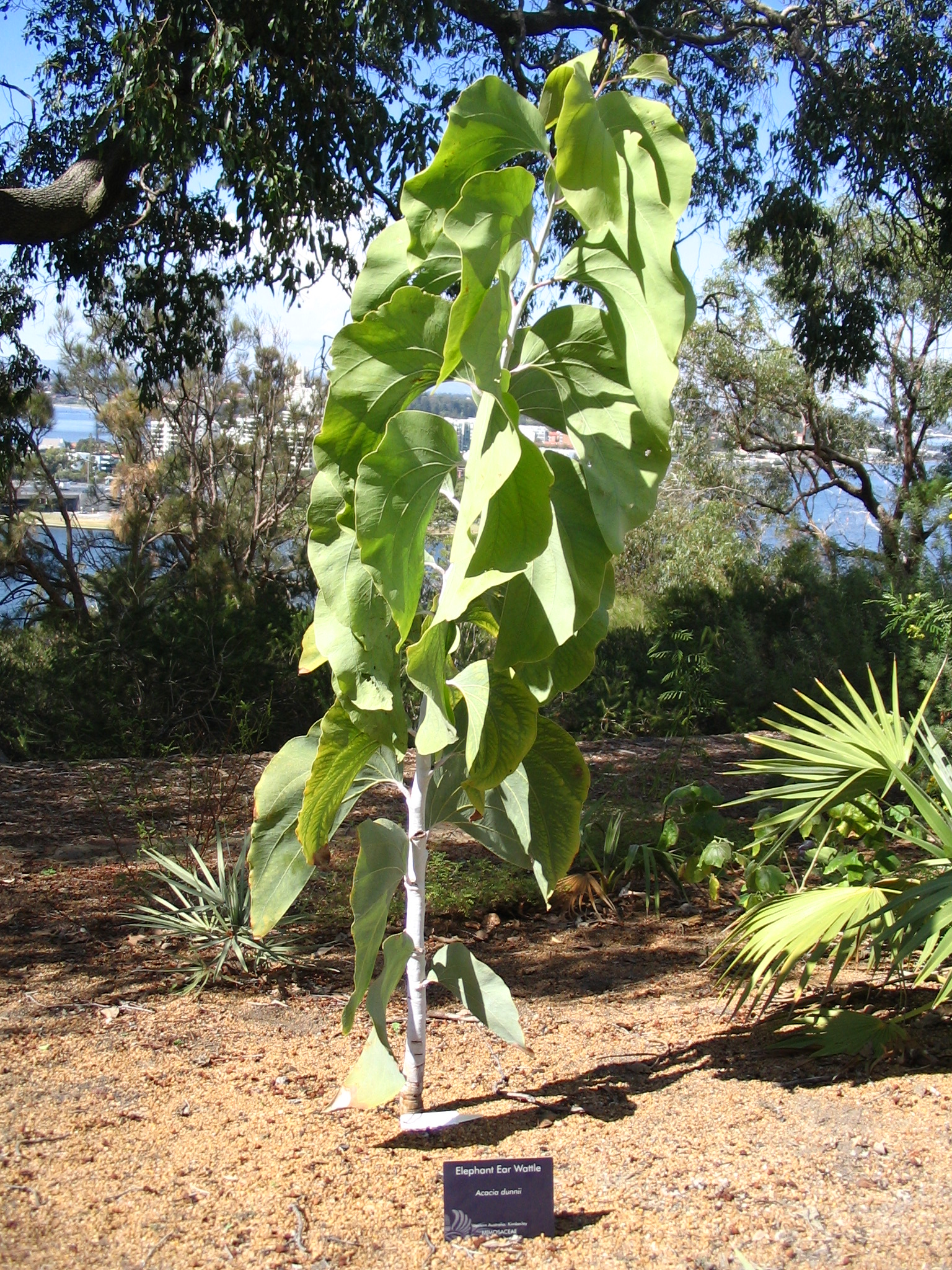 Elephant Ear Wattle (Acacia dunnii) in Kings Park, Perth, Australia, including label on ground.